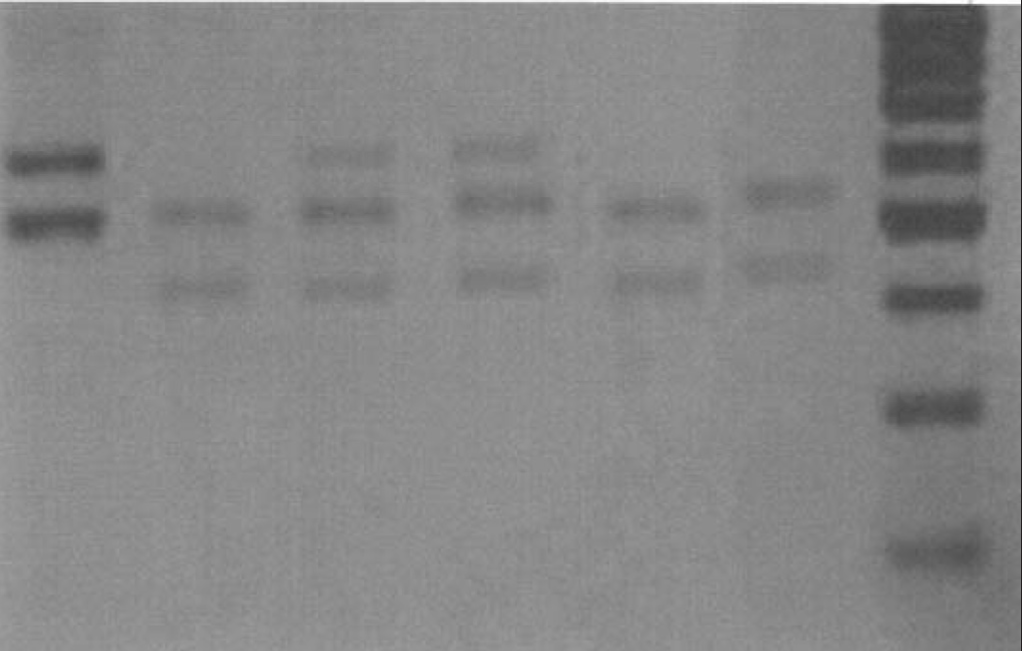 The D1S80 locus ran on a 2% agarose gel using amplified fragment length polymorphism (AmpFLP) analysis.